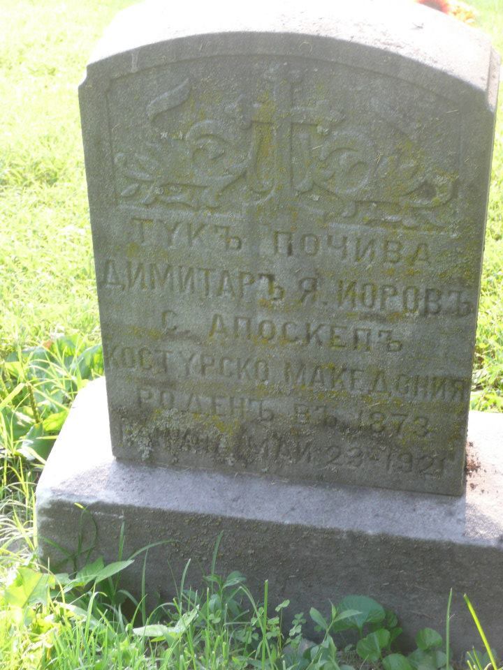 Marvin